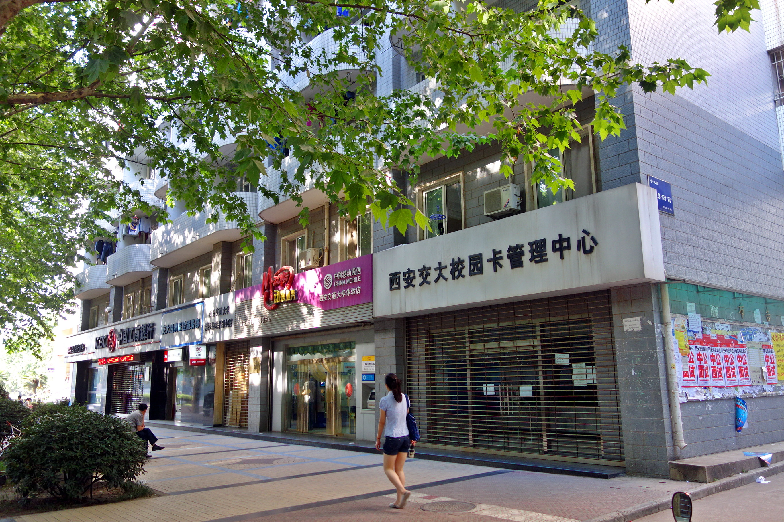 The East-3 Dorm Building ("东 3" 学生宿舍楼) of Xi'an Jiaotong University.